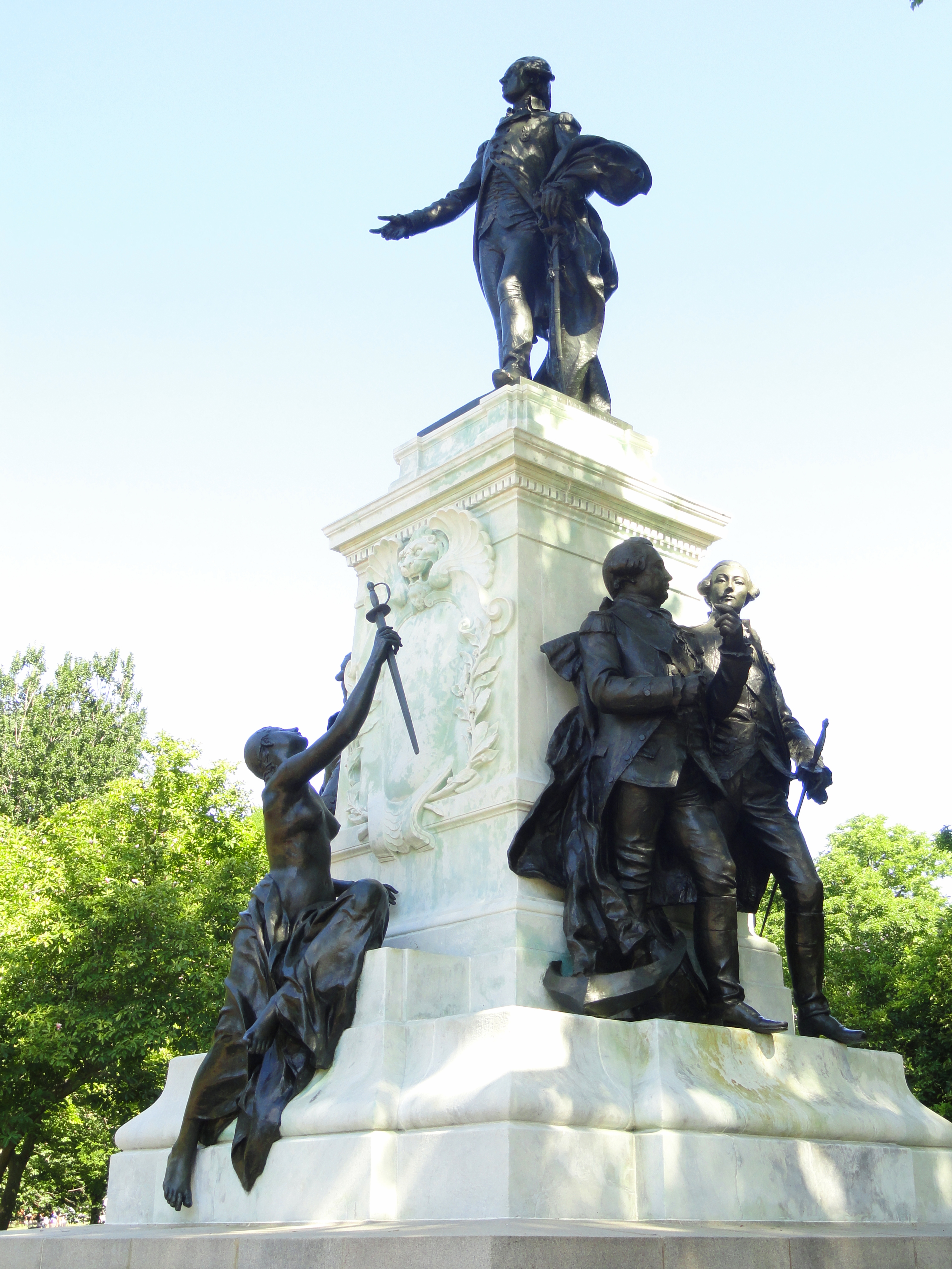 Monument to Major General Marquis Gilbert de Lafayette, Lafayette Park, Washington, D.C., USA. Sculptor: Jean Alexandre Joseph Falguière (1831-1900). This artwork is now in the public domain because the artist died more than 70 years ago.